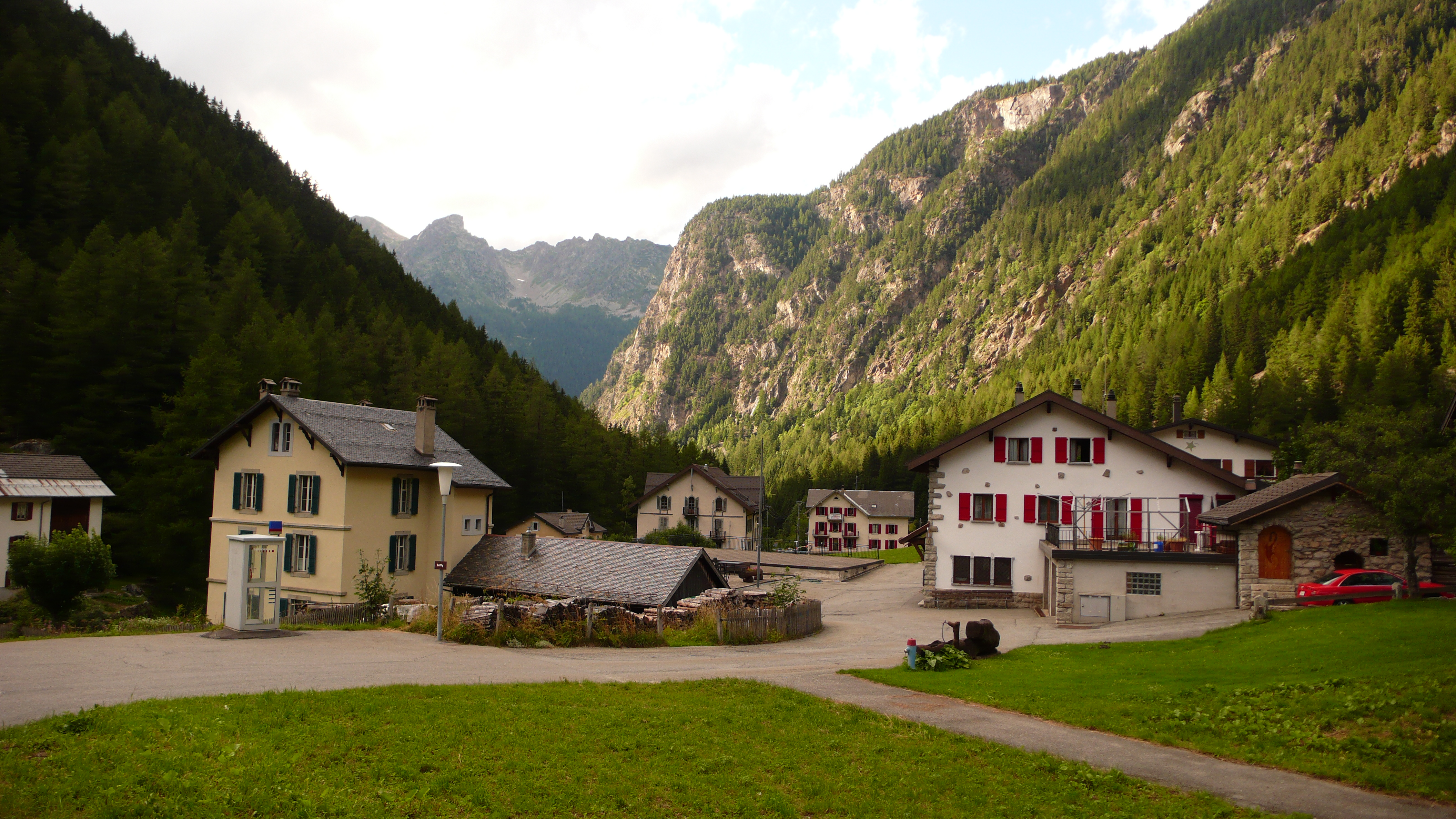 Trient, Valais, Switzerrland